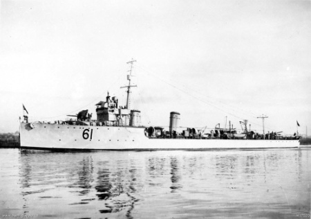 Photograph of Australian torpedo boat destroyer HMAS Swan